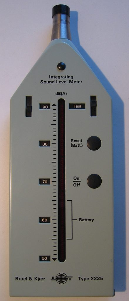 Integrating Sound Level Meter, in dB(A), from Brüel & Kjær, model 2225.